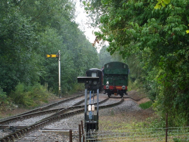 The run around loop at Wymondham Abbey station The current end of the line for regular passenger services, the line continues and connects to the national network.